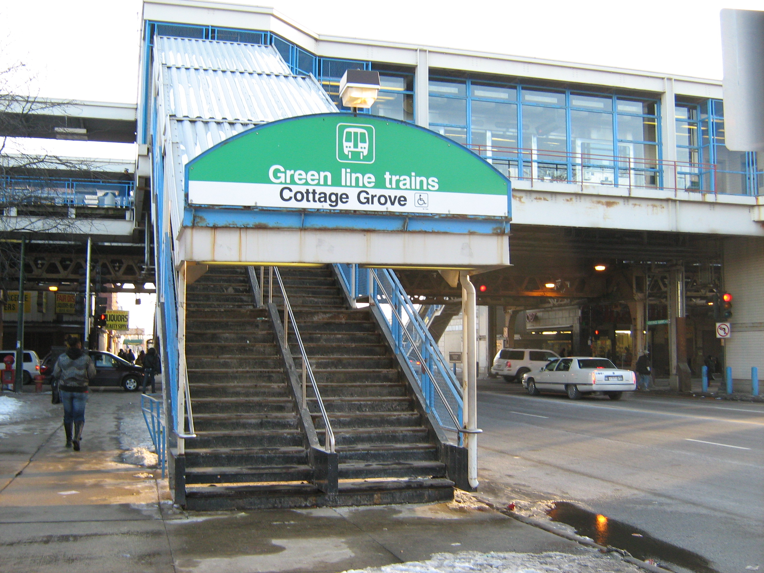 Cottage Grove CTA Green Line Entrance